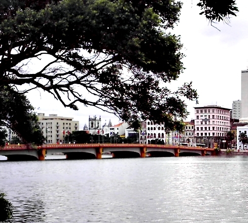 Maurício de Nassau Bridge - Recife, Pernambuco, Brazil